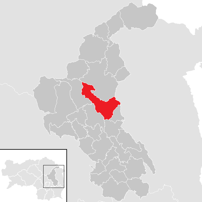 district Weiz